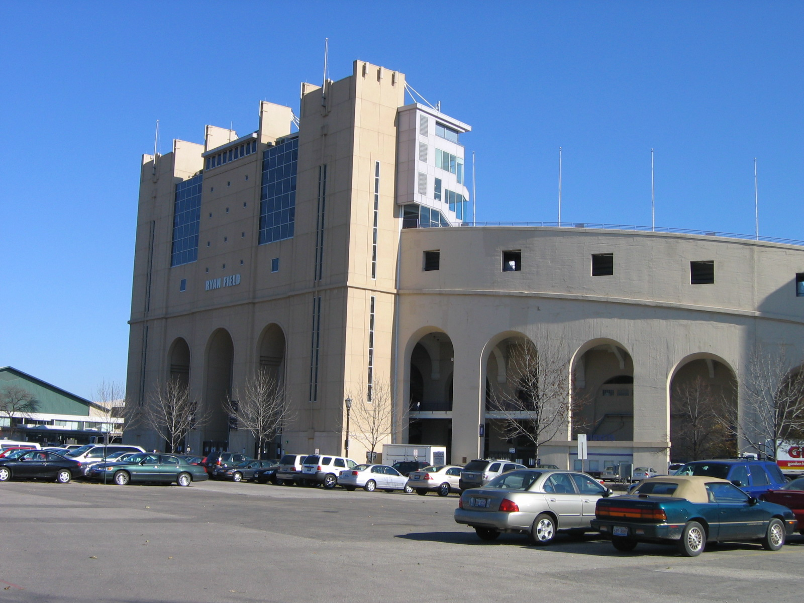 Football & Basketball Facilities Northwestern U Football Stadium